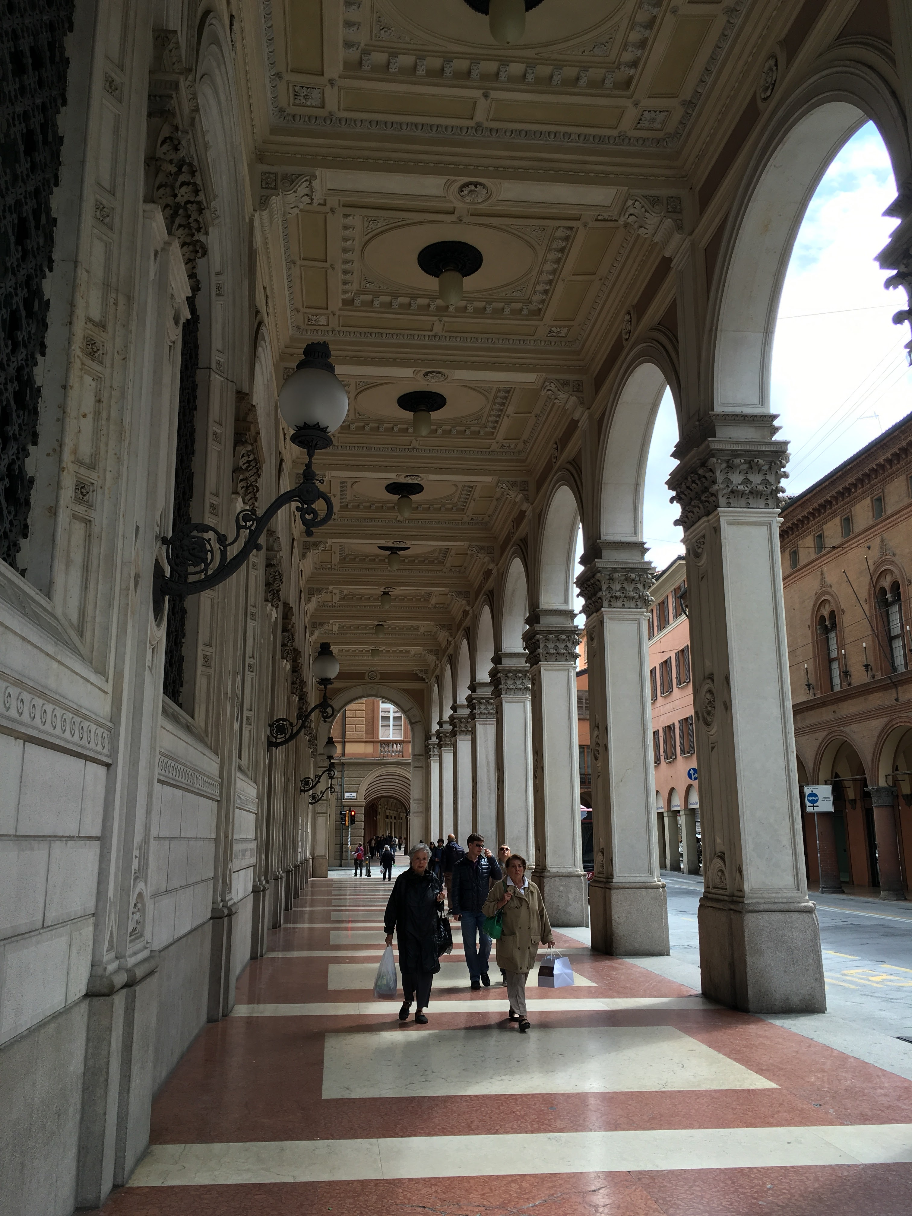 portico palazzo della cassa di risparmio di bologna